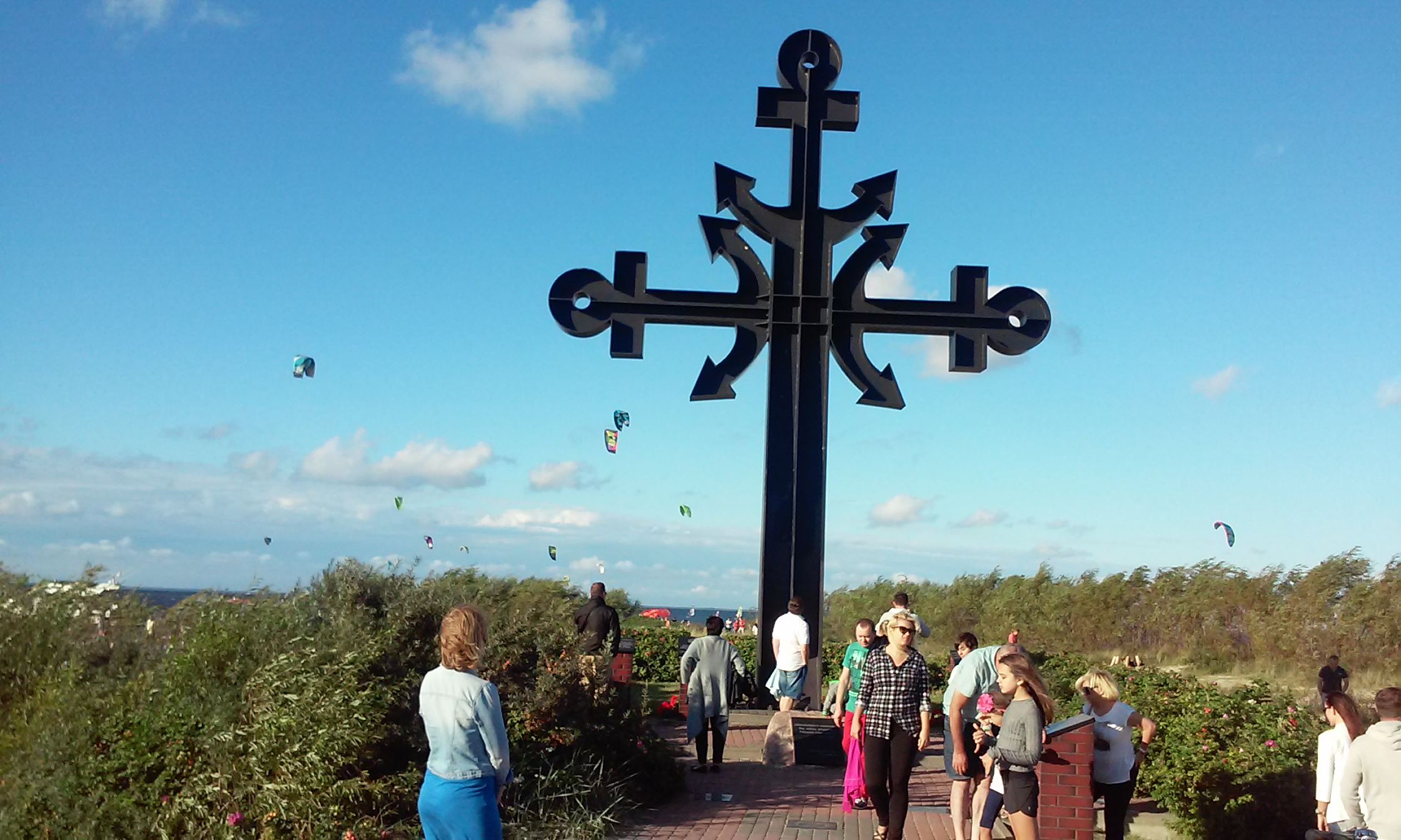 Maritime Cross in Rewa, Poland